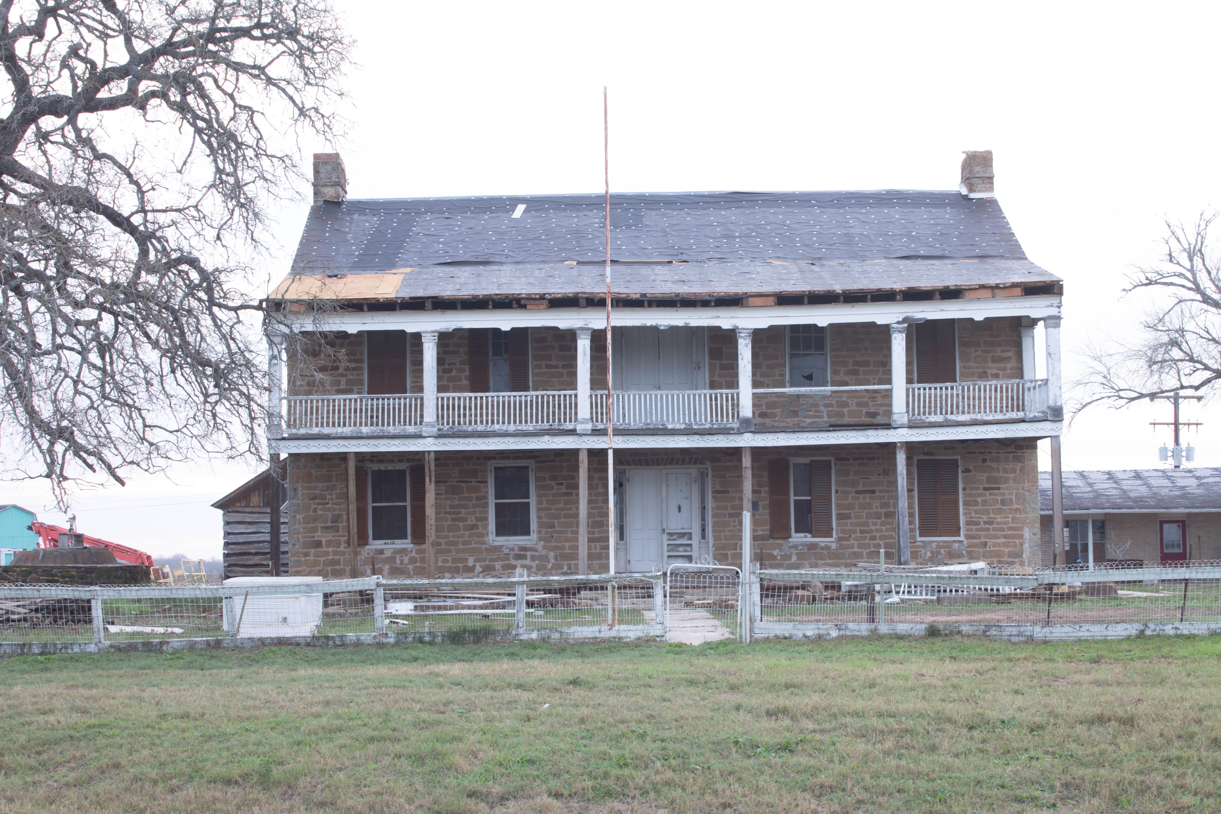 Whitehall in Sutherland Springs, Texas